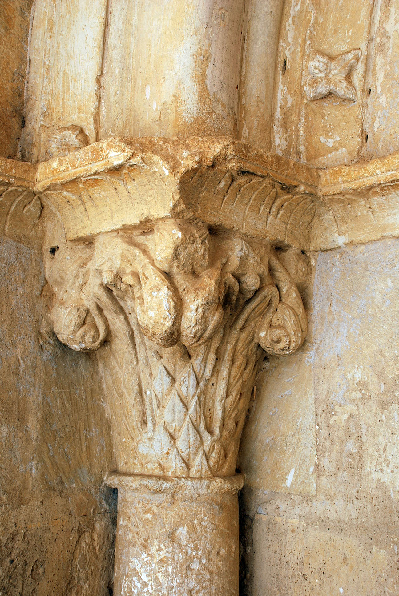 Romanesque capital of the Church of Saint Román in Villaherreros (Palencia, Castile and León).